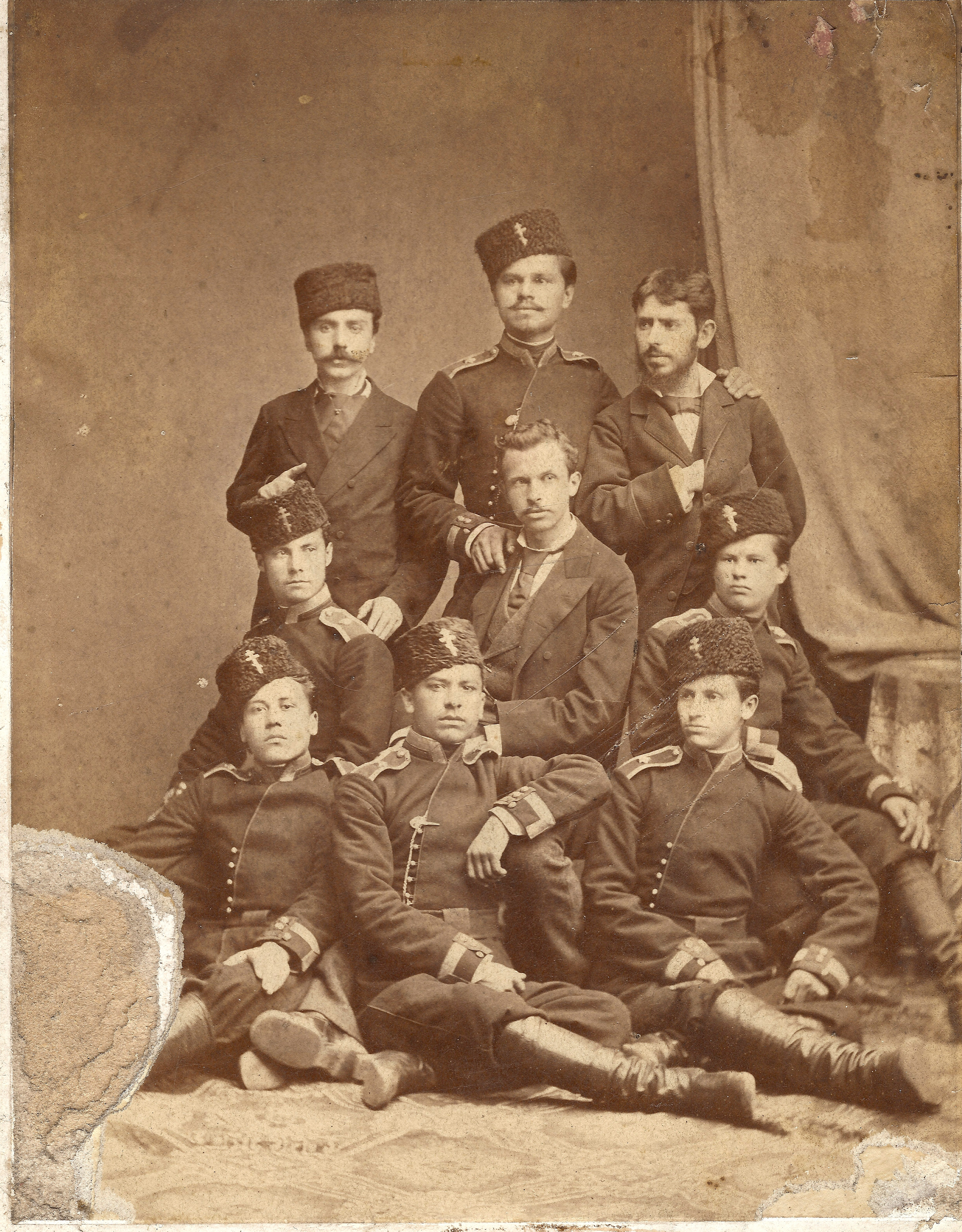 Hristo Zankov (in the middle) with comrades, 1876.